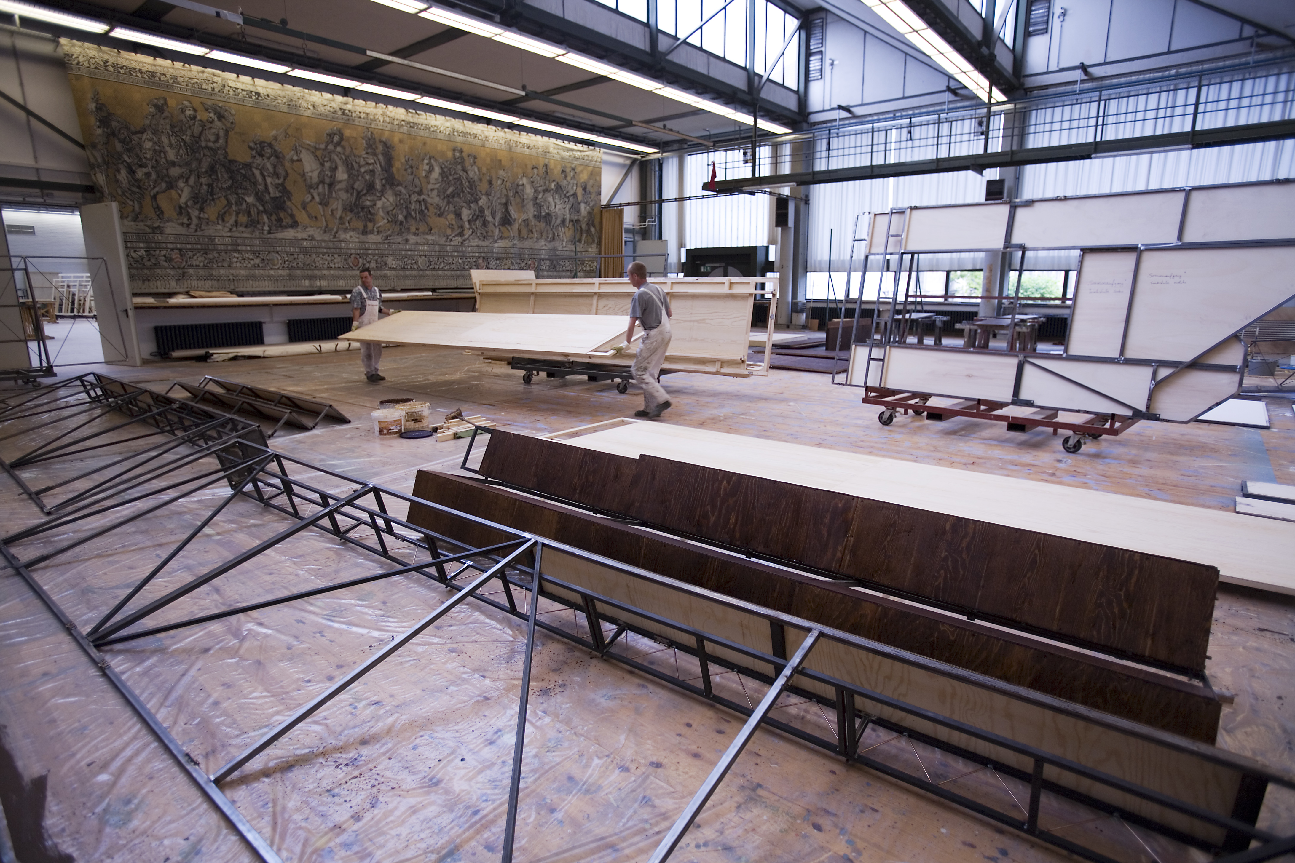 Scenography, set construction and theatrical scenery